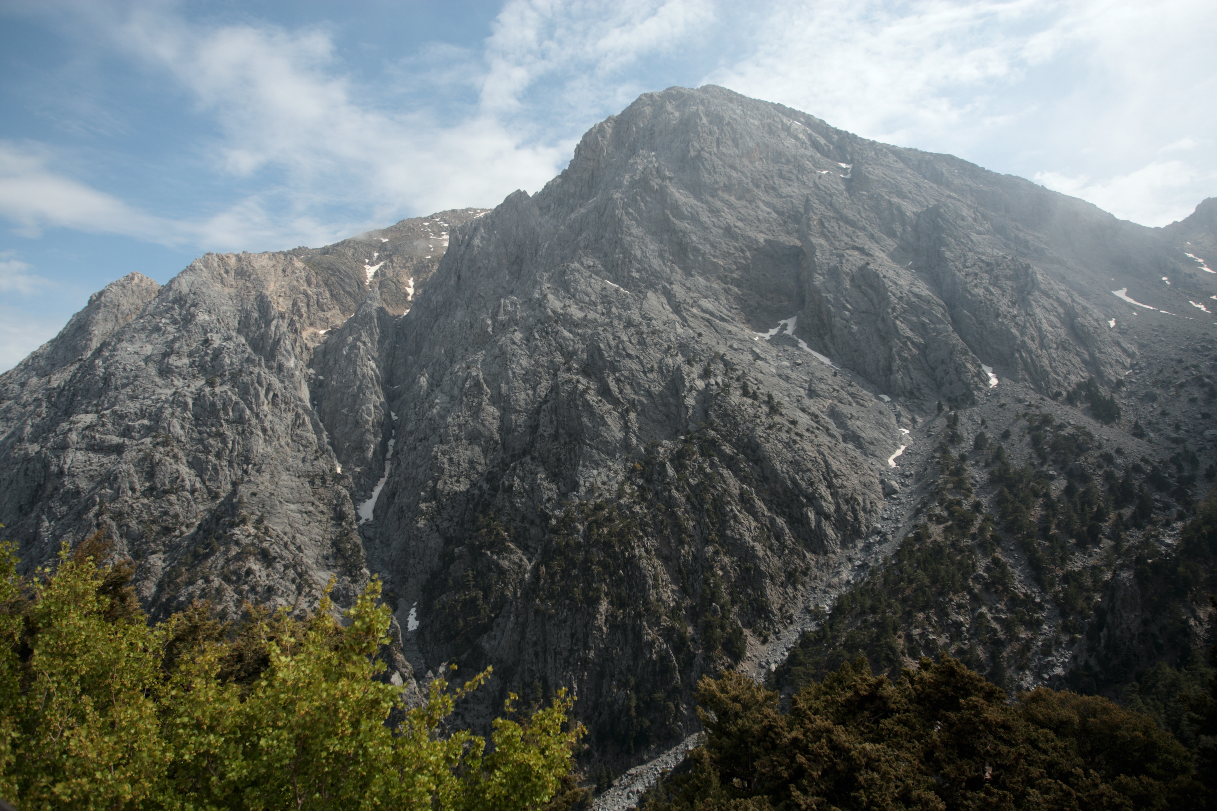 Gingilos from Xyloskalo, Crete